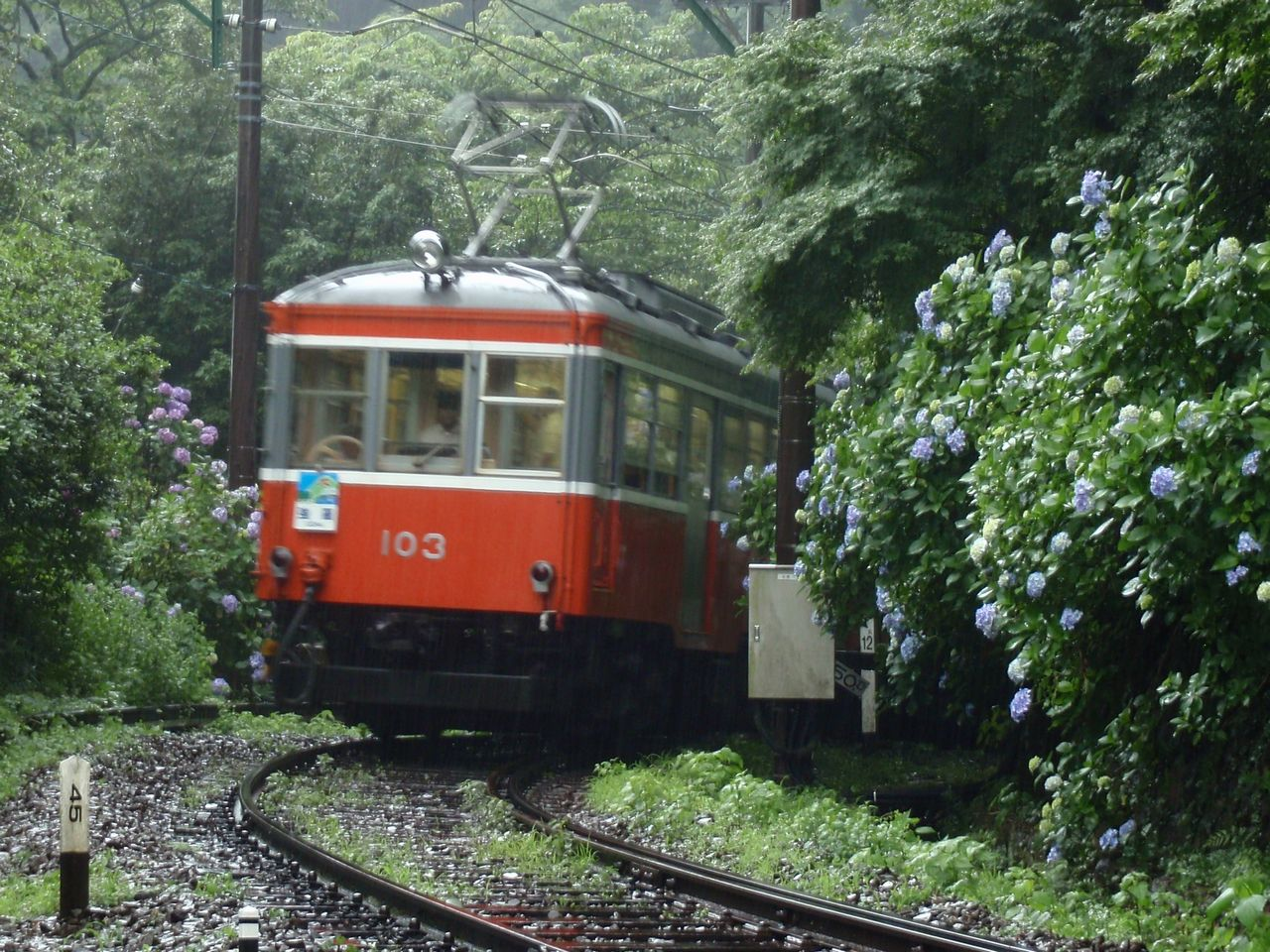 Hakone Tozan Railway Type 1 No.103. The hydrangea flower is seen from June through July the railway track sideward.